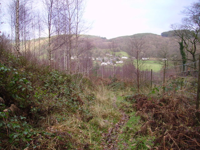 Satterthwaite from Hob Gill Plantation Descending to Moor Lane